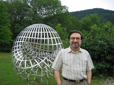 Photo of Nassif Ghoussoub